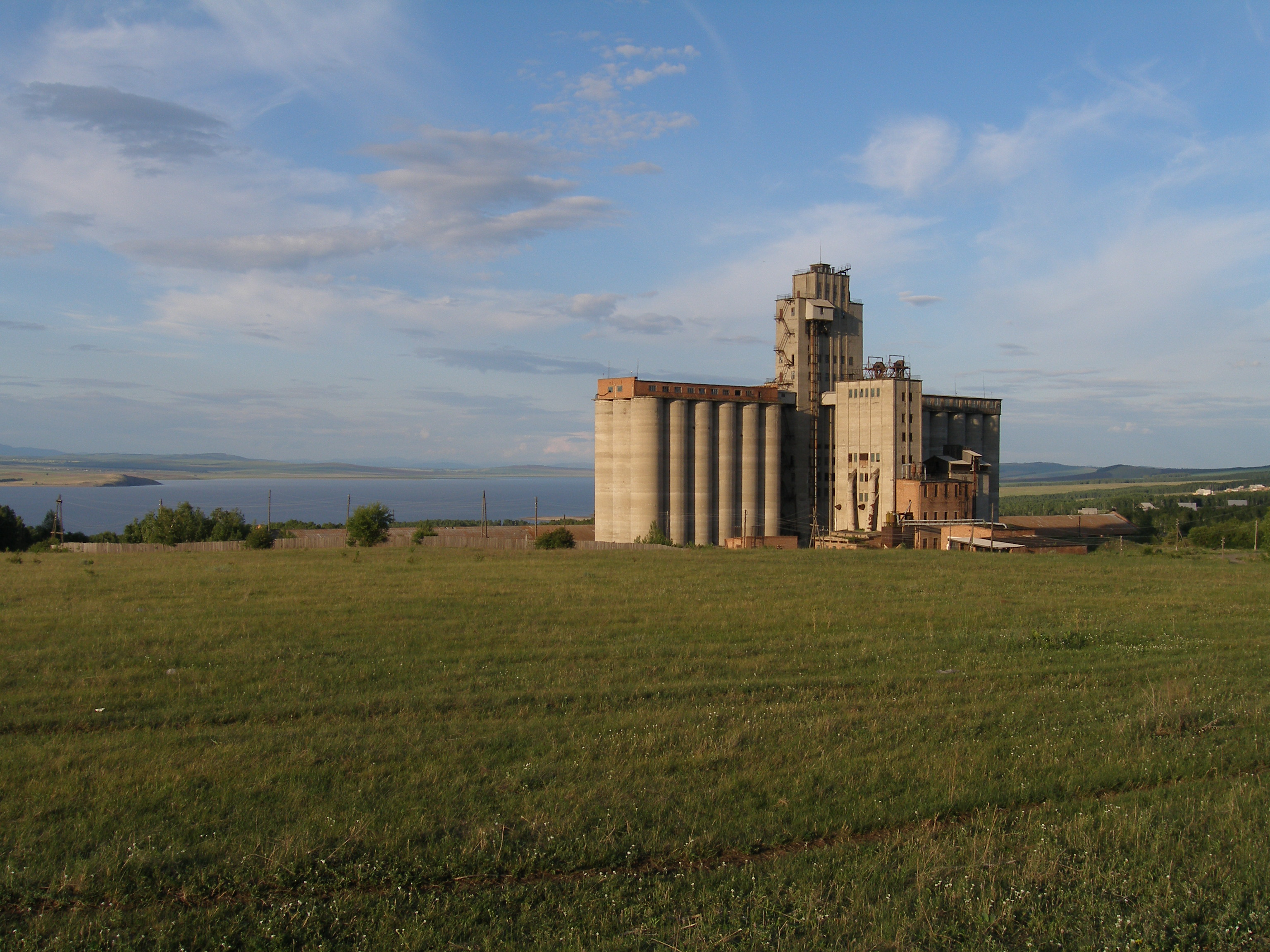 Grain elevator in Krasnoyarsk Krai of Russia.